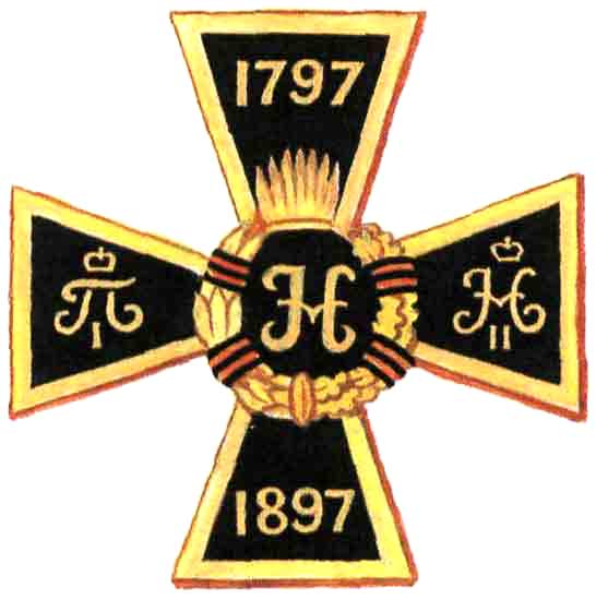 Badge of Nesvizhsky 4-th Grenader Regiment